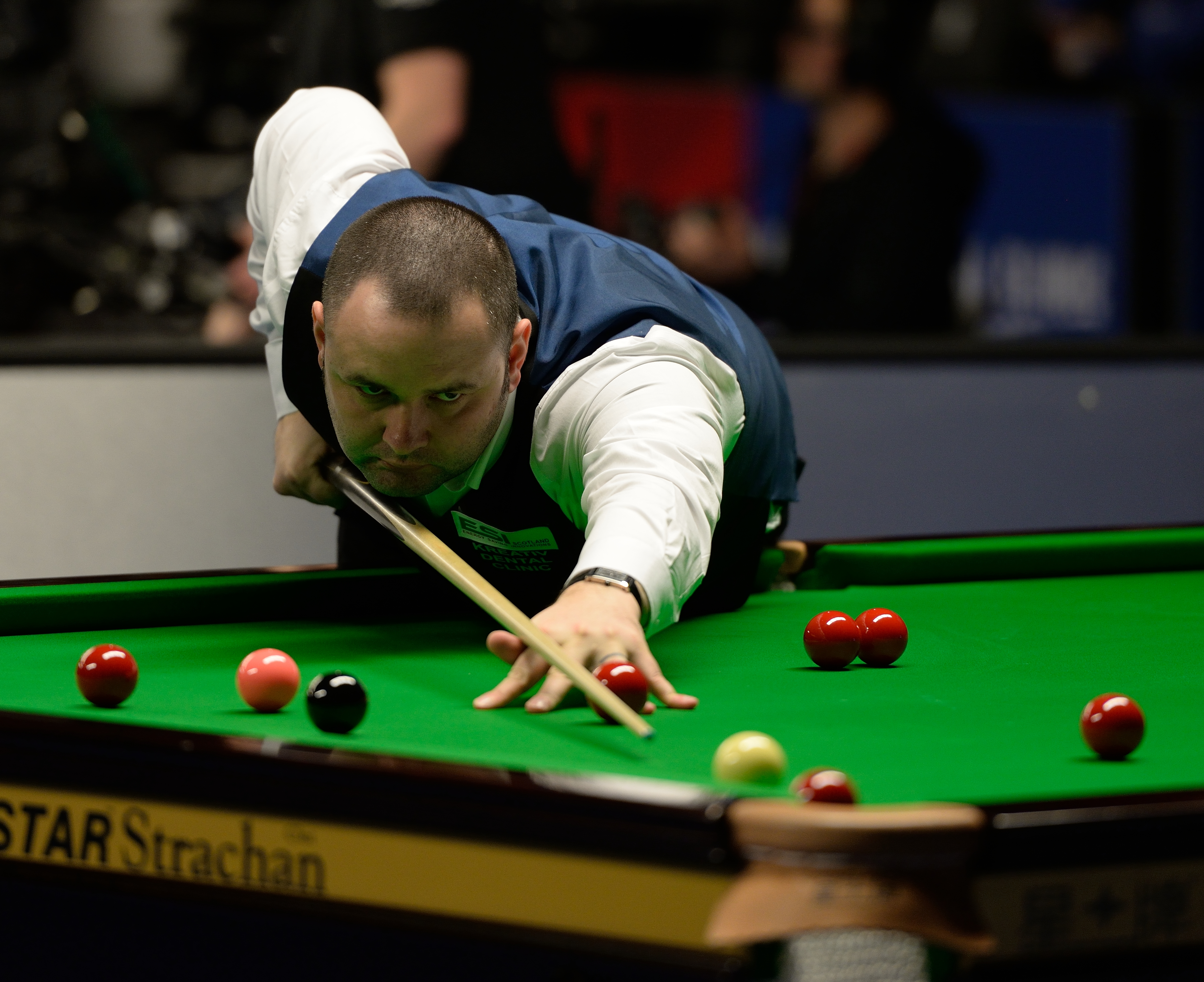 Picture taken in Berlin during the Snooker German Masters in 2015. Stephen Maguire.